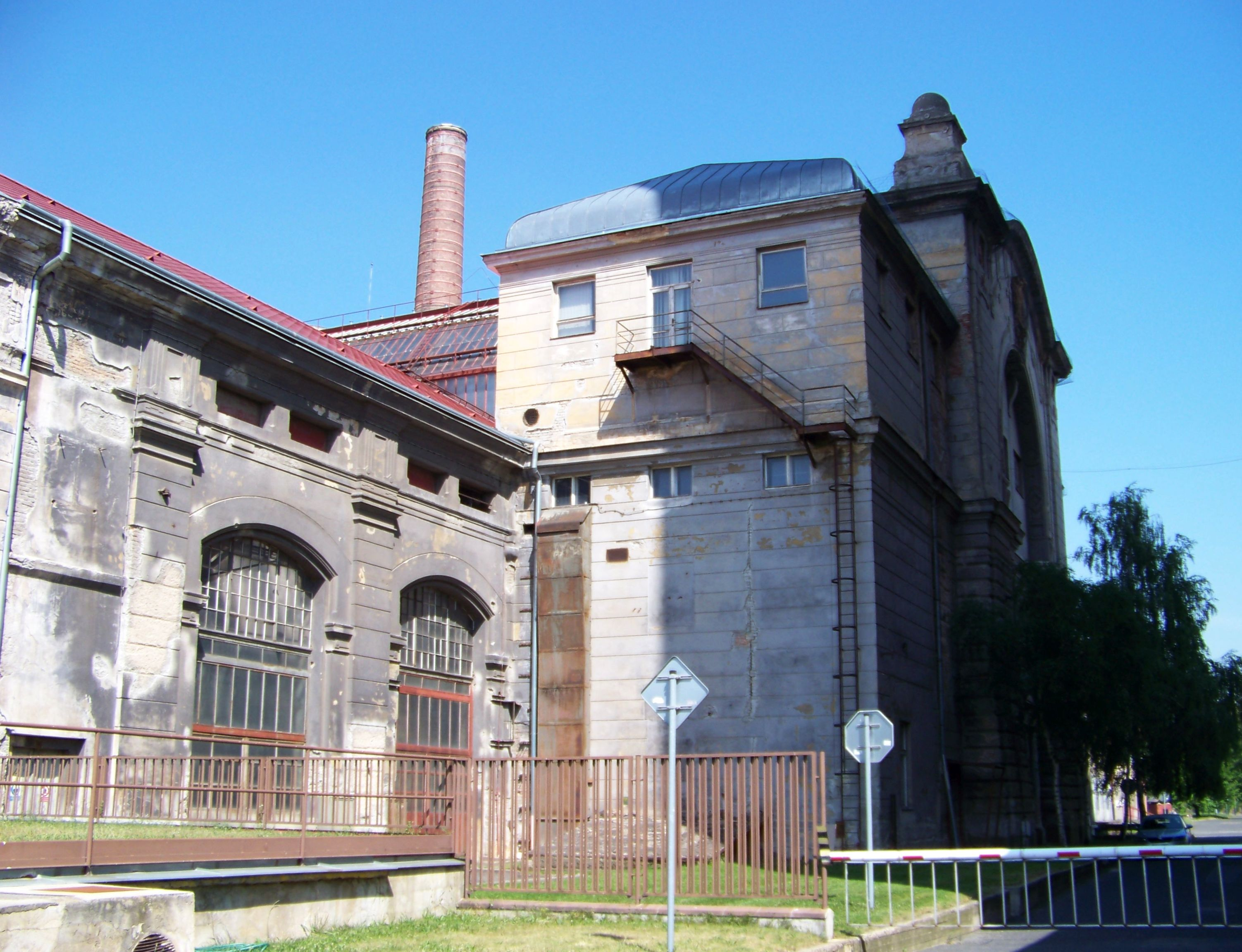 Prague-Holešovice, Czech Republic. A power plant.